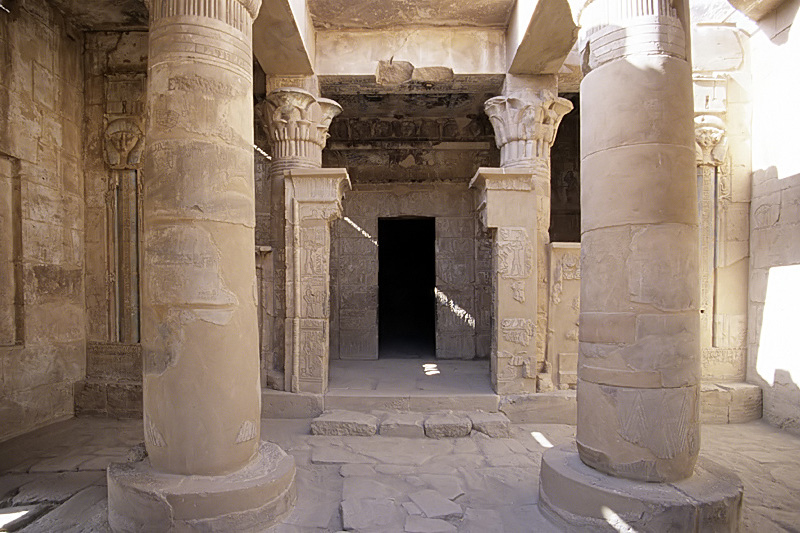 First hall, Temple of Hathor and Maat, Deir el-Medina, Luxor West Bank, Egypt